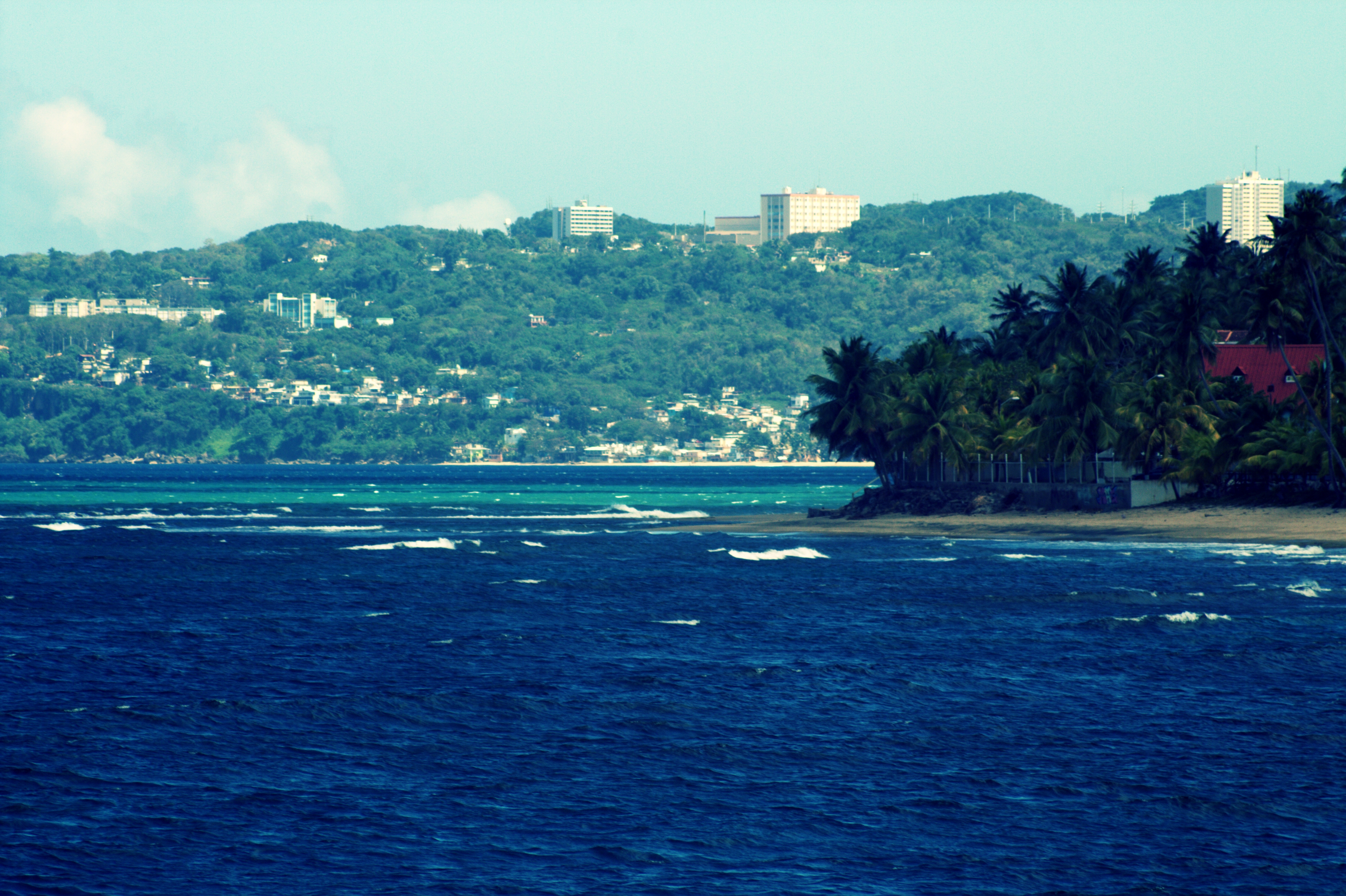 Guaniqulla, Aguada and Aguadilla in Puerto Rico